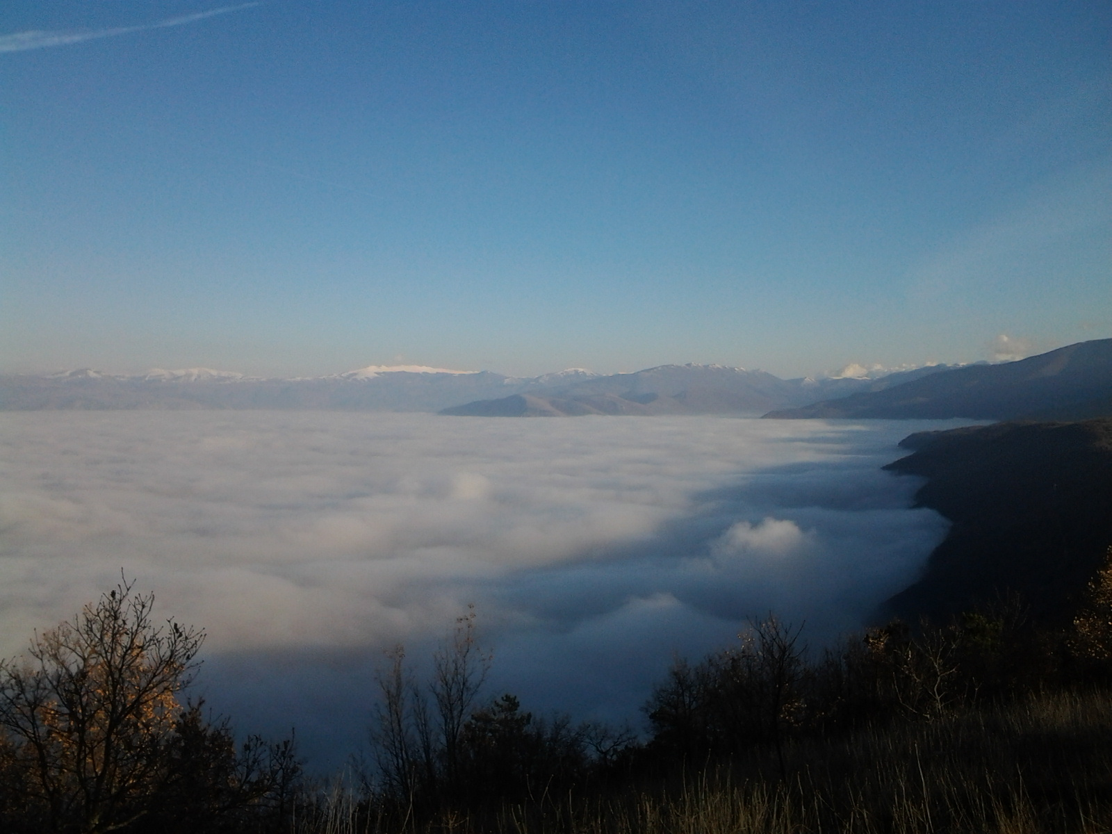 Optical illusion of Lake Fucino on foggy days, Fucino, Abruzzo, Italy